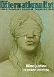 Blind Justice New Internationalist